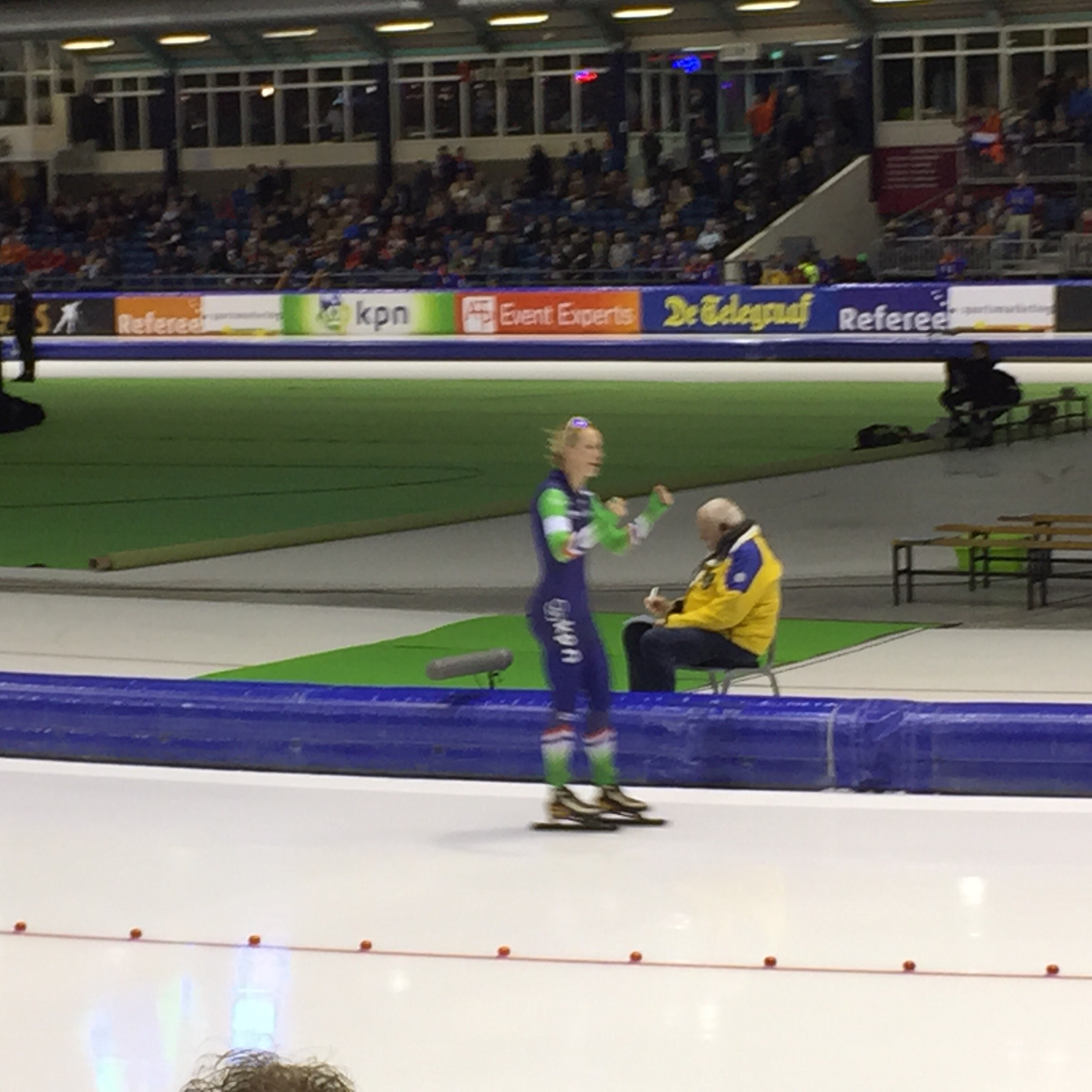 2015 World Single Distance Speed Skating Championships, Women's 5000m (